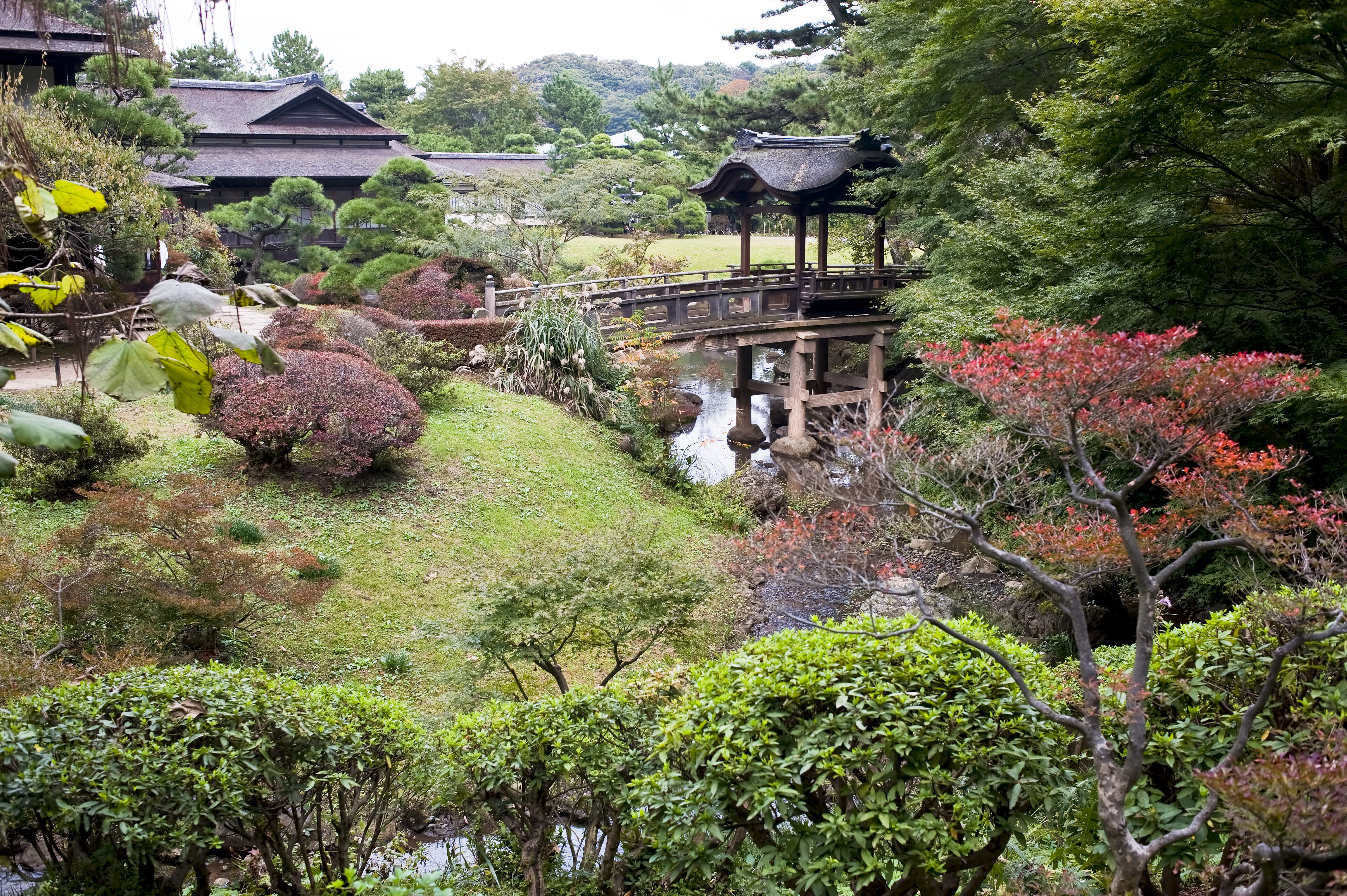 The Rinshunkaku and the Teisha Bridge at the Sankei-en near Yokohama